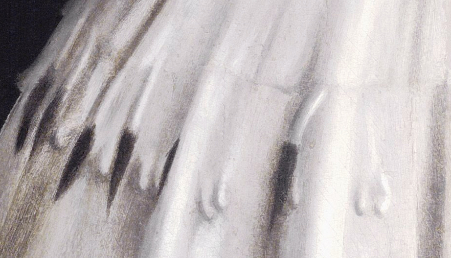 Doge Giovanni Mocenigo, 1478-1485 *tempera on poplar panel (cradled) *64.77 cm x 47.63 cm